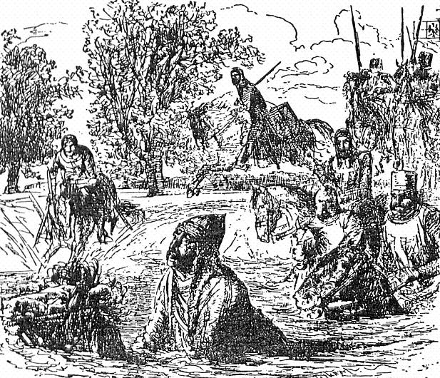 Drawing Jaxa von Köpenick auf der Flucht durch die Havel (german for: Jaxa von Köpenick on the run trough river Havel), commemorating to a legend of the slavic Fürst (prince, ruler) Jacza de Copnic (Jaxa von Köpenick). Schildhorn (german for: shieldhorn) is a headland in the river Havel, situated in the protected area Grunewald in the homonymous quarter Grunewald of Berlins borough Charlottenburg-Wilmersdorf, Germany.